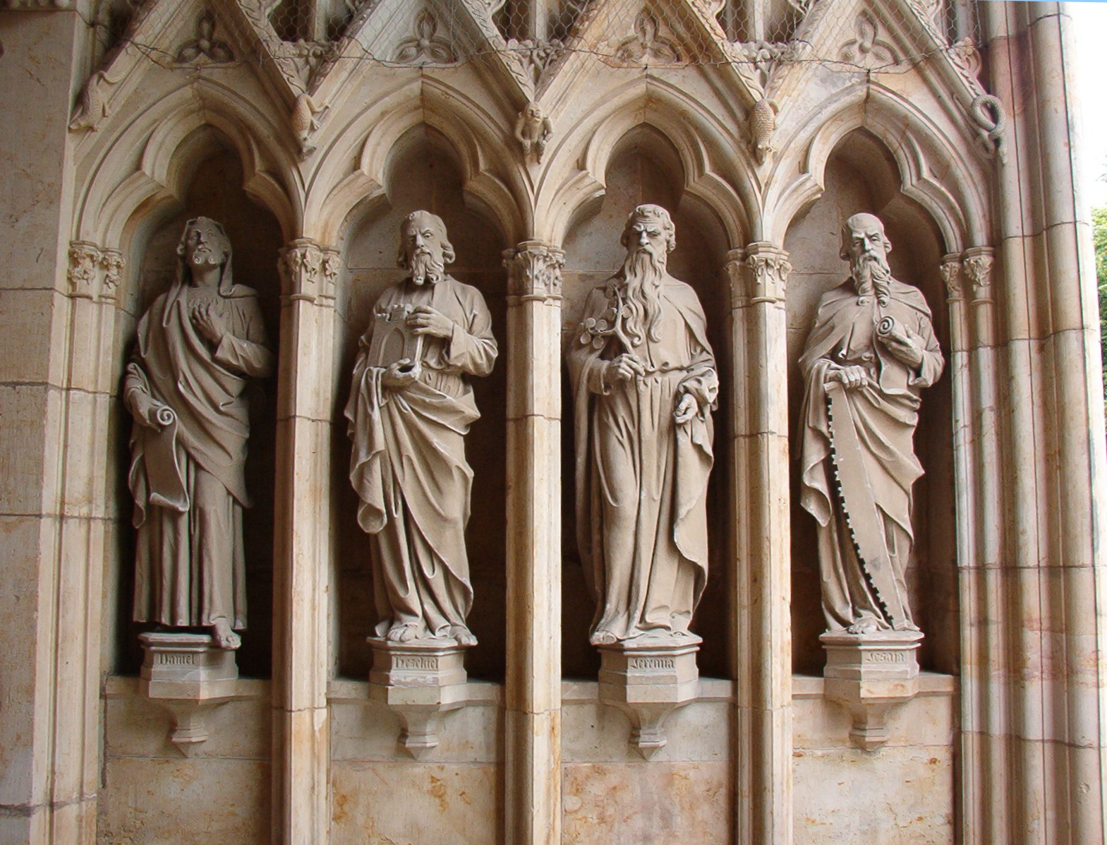 In the south-western entrance these four prophets are depicted. They are: Daniel, Hezekiel, Jeremia and Jesaja. Date : August 10 2005